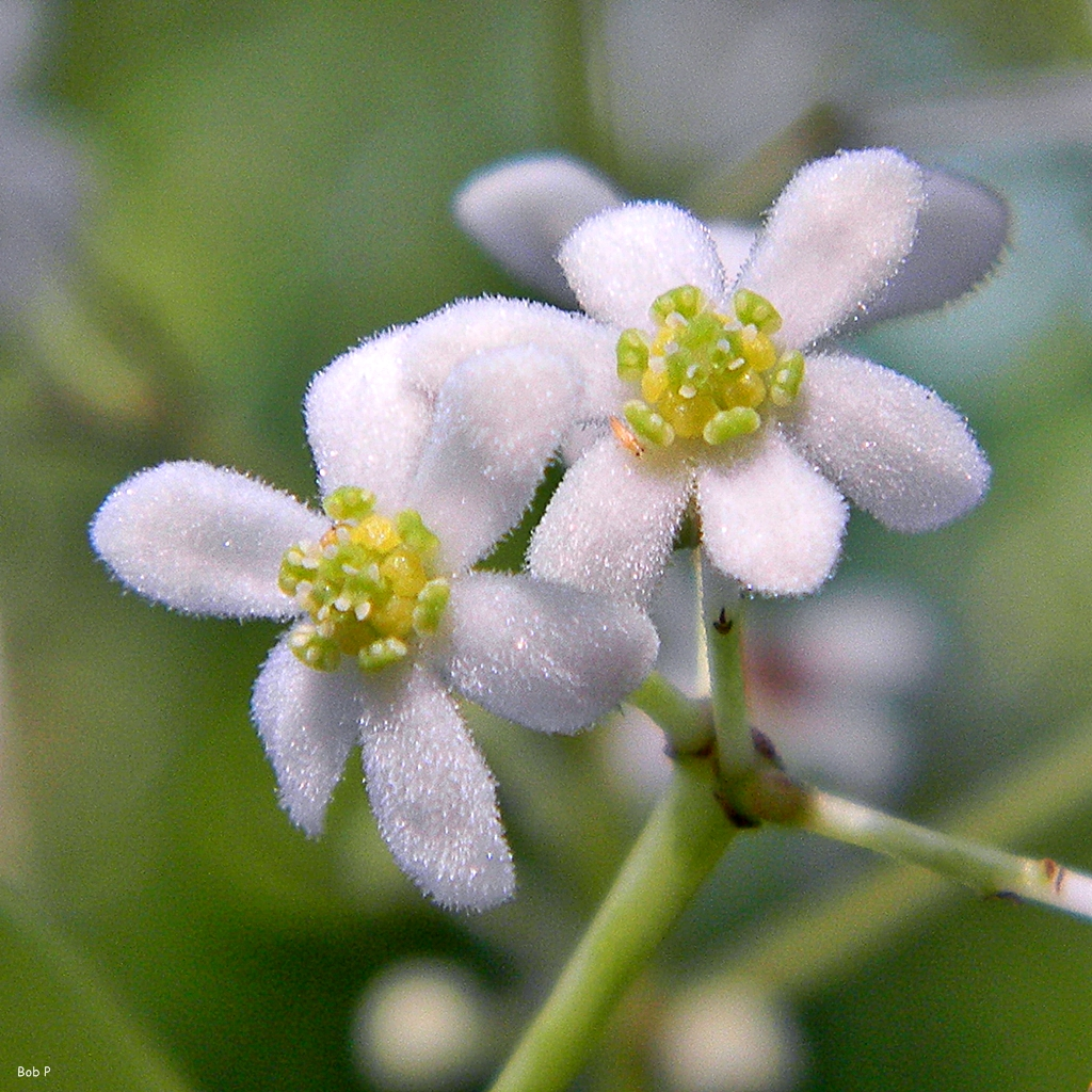 7mm blossoms from a panicle of the Lancewood tree. It's surprising that large trees can have such tiny flowers. The tree is called Lancewood because aboriginal Floridians used the very straight stems as spears. Torchwood is another name, referring to the large amount of oil in the wood making it useful as a light source. The genus has been changed from Ocotea to Nectandra and is a member of the laurel family. These grow to about 12 meters and are fairly common in Florida coastal hammocks, including Munyon Island.